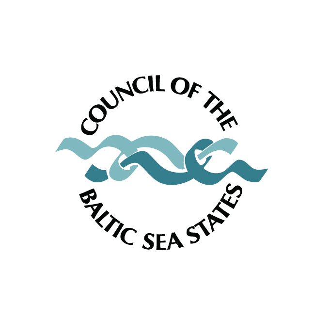 CBSS logo